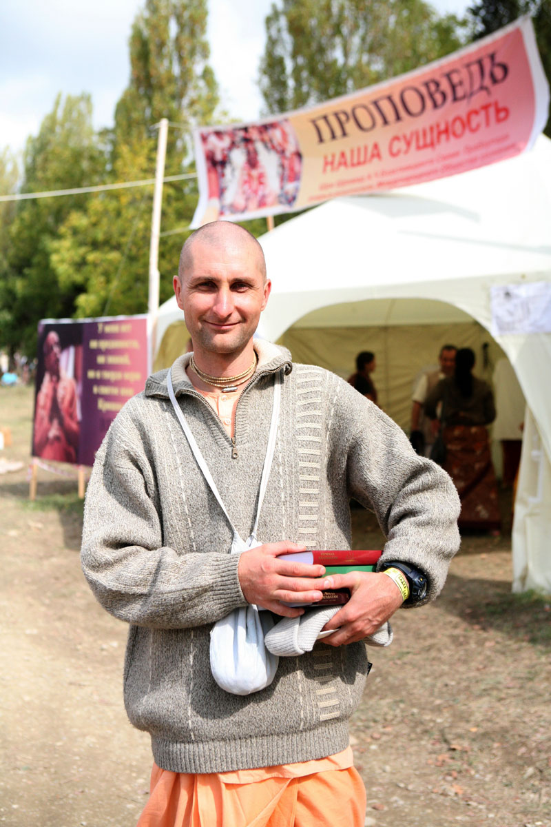 Russian Hare Krishna devotee with books